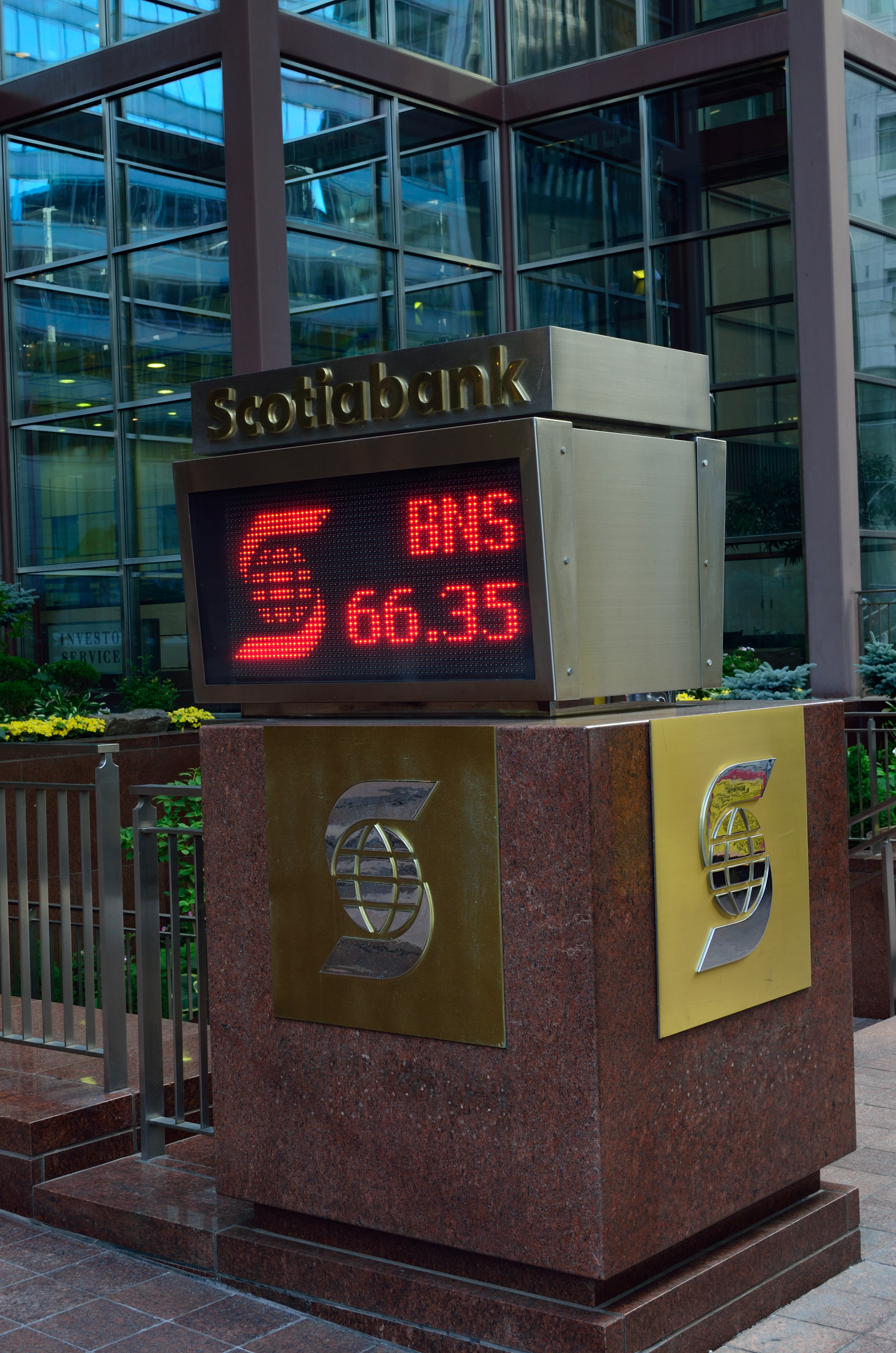 Scotia Plaza